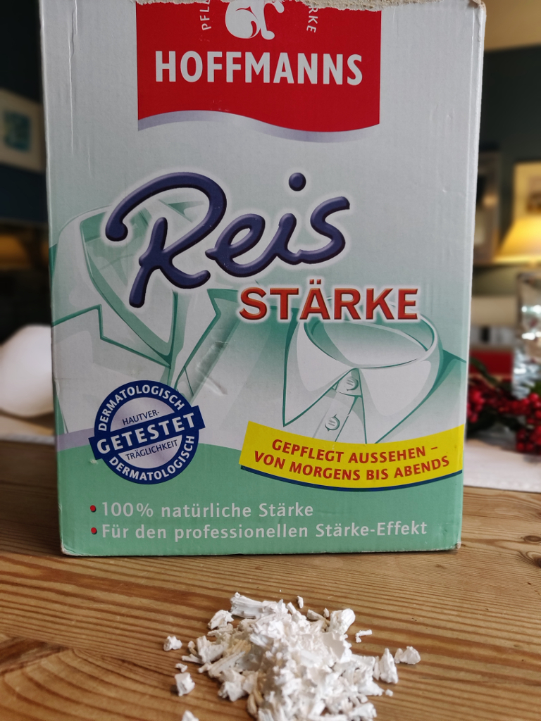 Rice starch for ironing, available from Reckitt Benckiser in Germany and Austria